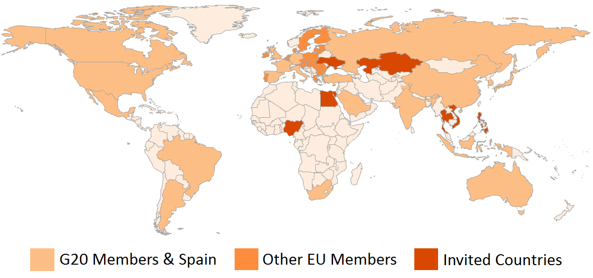 Map displaying the participating countries in the G20 Agricultural Market Information System (AMIS).